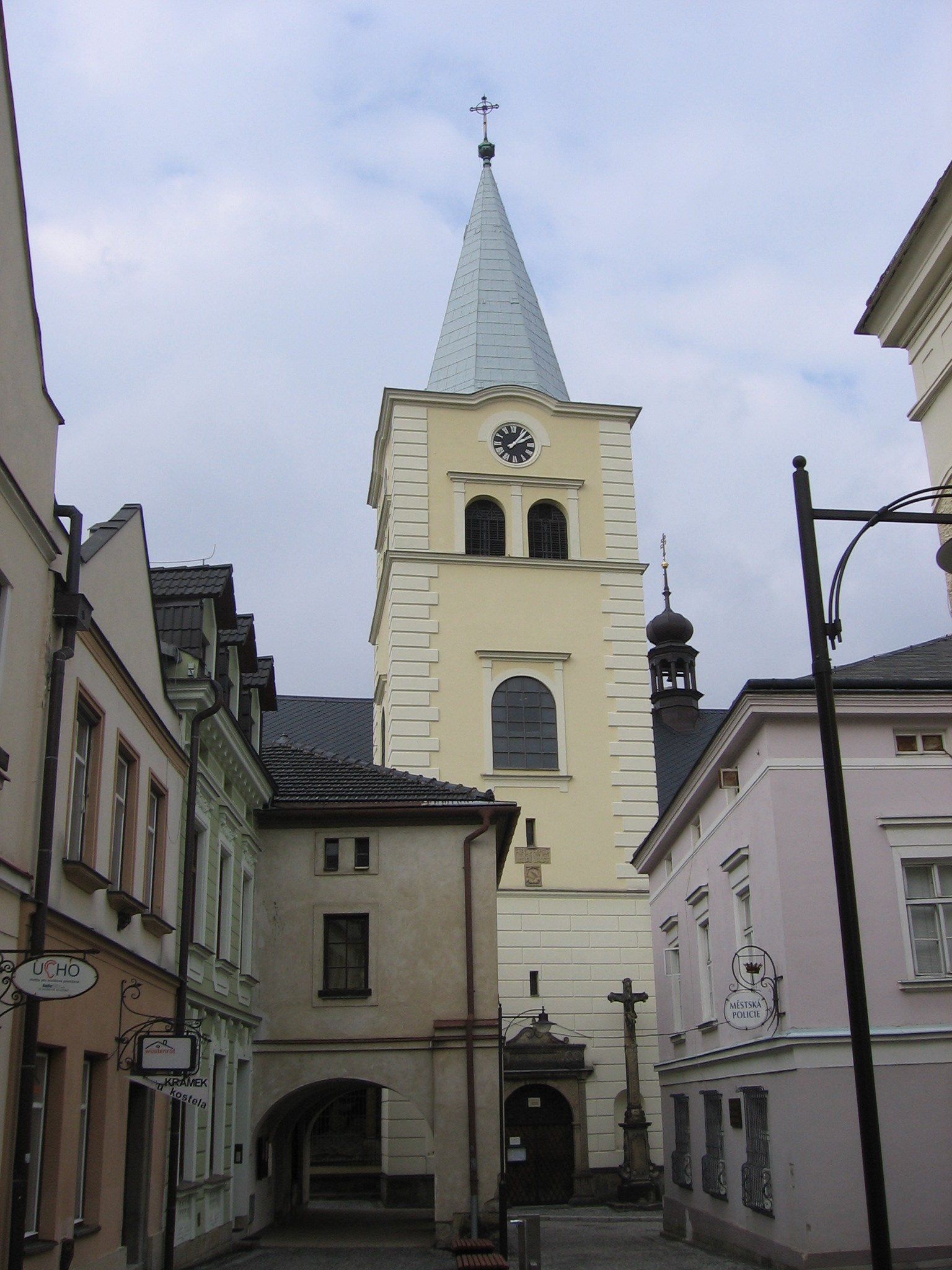 The Church of the Assumption of the Virgin Mary in Valašské Meziříčí, Zlín Region, Czech Republic